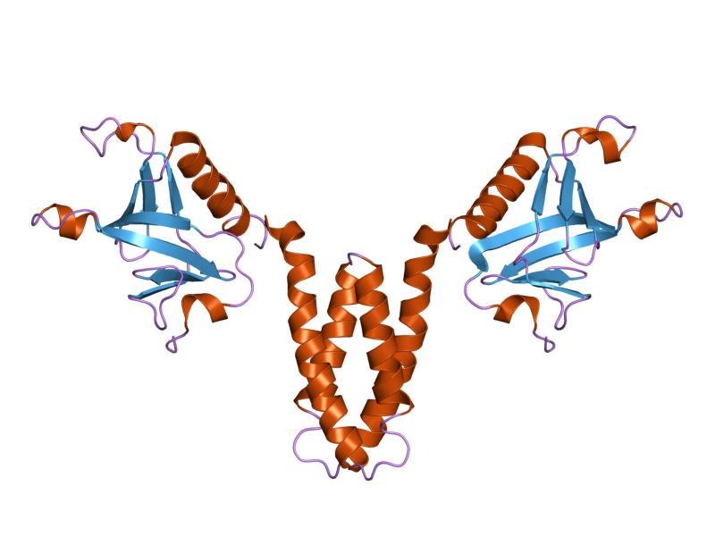 Cartoon representation of the molecular structure of protein registered with 1u5e code.